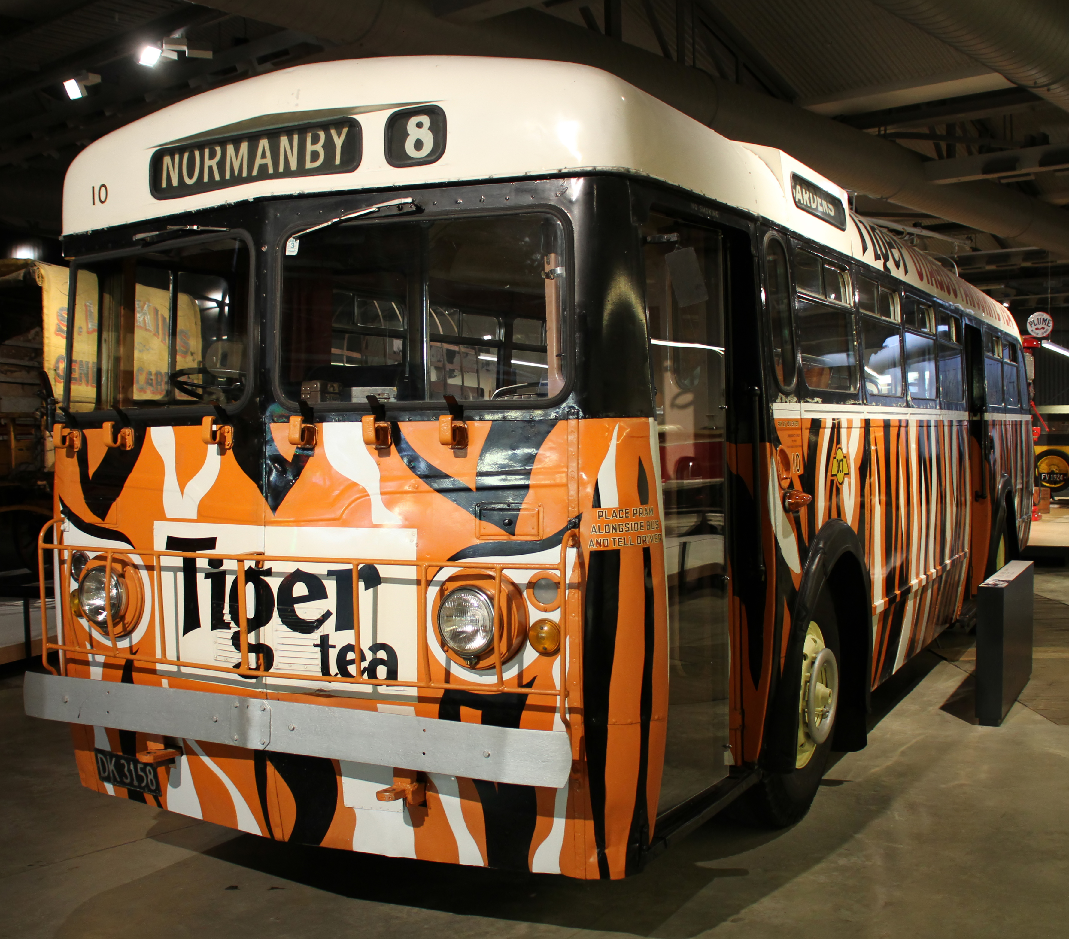 Trolley bus No.10, registration DK3158, used by the Dunedin City Transport Department from 1951-1983. Leyland body by NZMB B40D